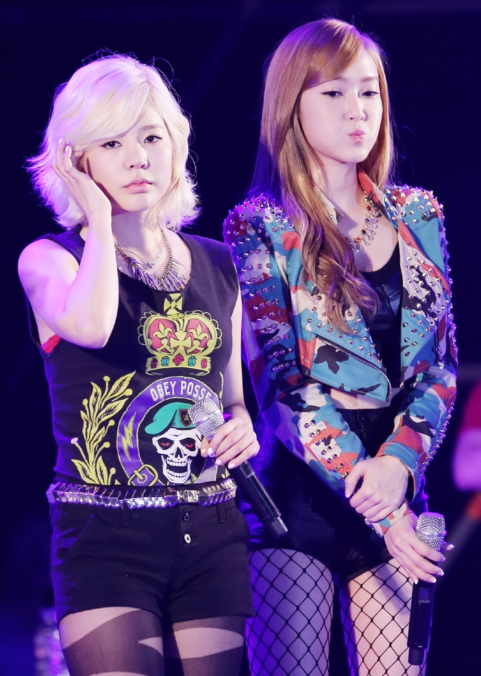 Sunny and Jessica Jung at the Yakult Korea Festival on May 22, 2013.Português do Brasil: Sunny e Jessica Jung no Yakult Korea Festival em 22 de maio de 2013.